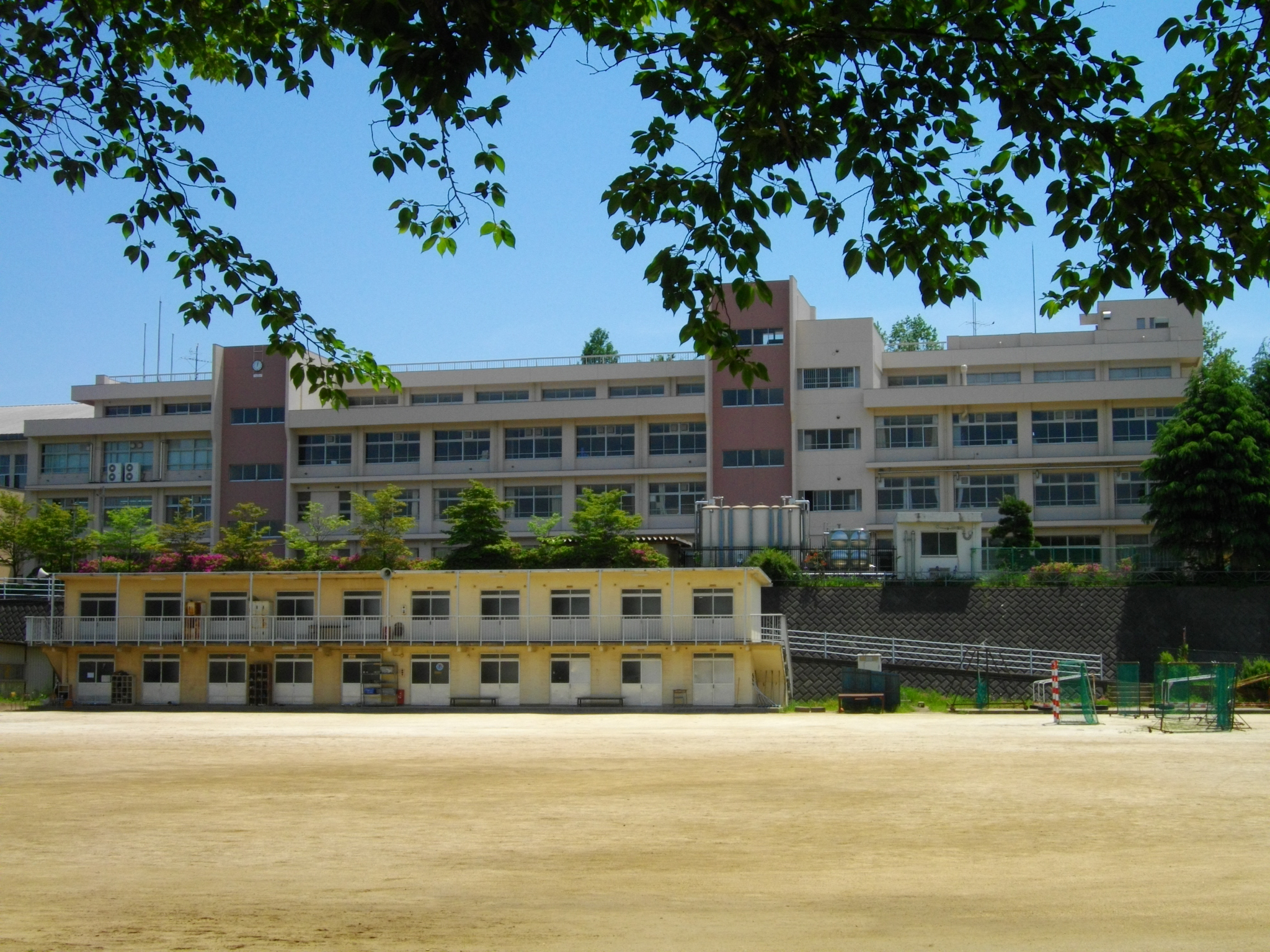 Nagareyama-Otakanomori High School